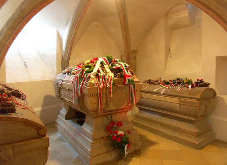 Crypt of Francis II Rákóczi in Košice, St. Elisabeth Cathedral